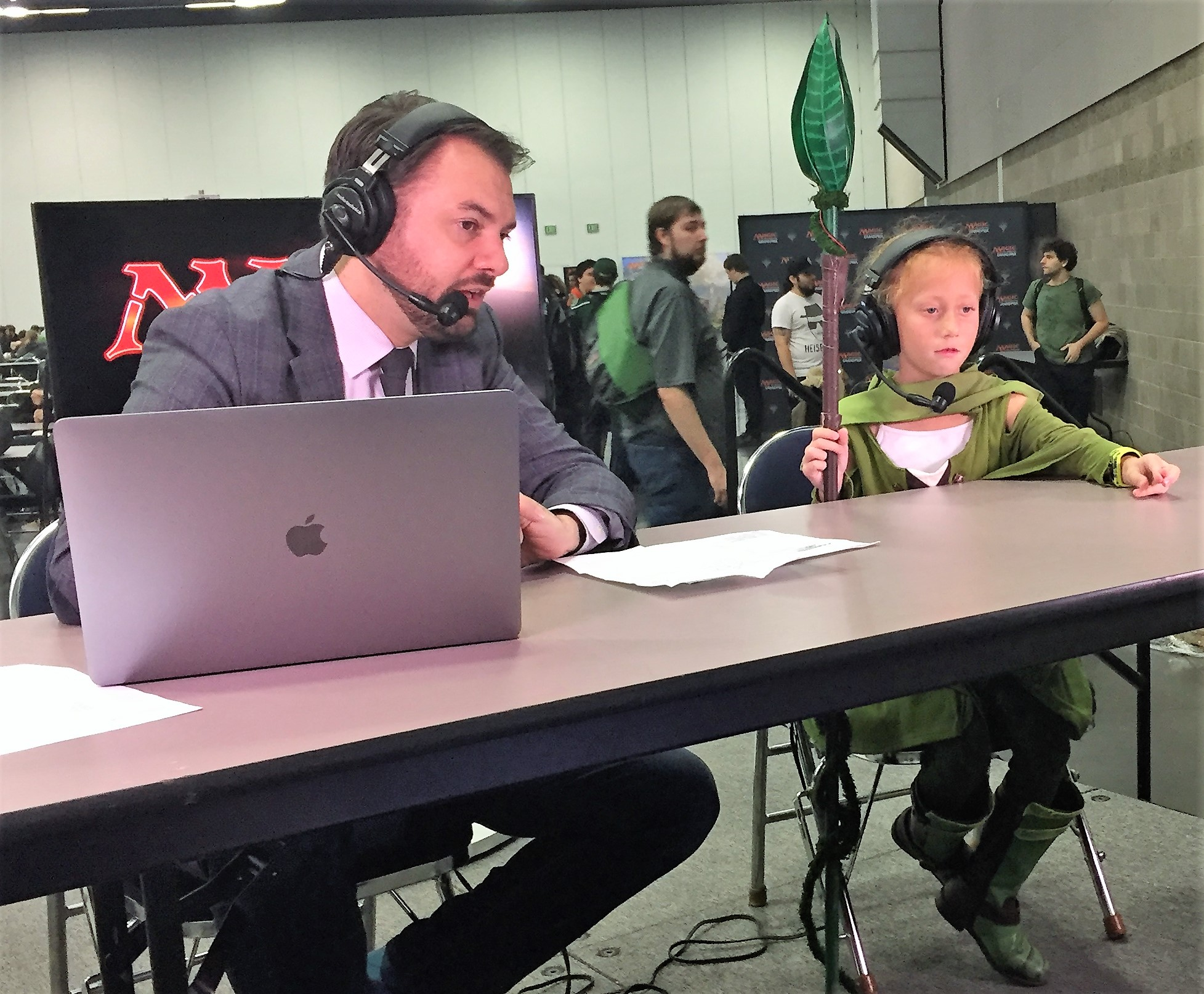 Magic: the Gathering commentators Marshall Sutcliffe and Dana Fischer at Grand Prix Portland 2017.